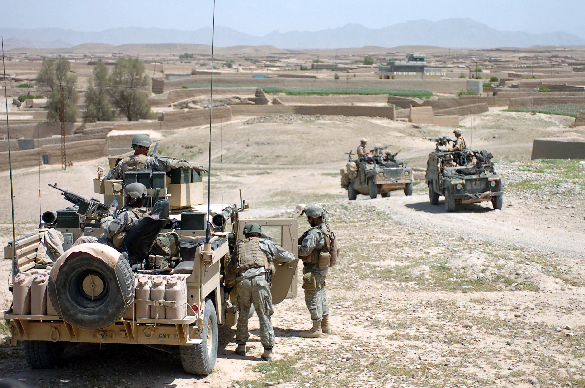 SANGIN, Afghanistan - American and British soldiers take a tactical pause during a combat patrol in the Sangin District area of Helmand Province April 10 2007.